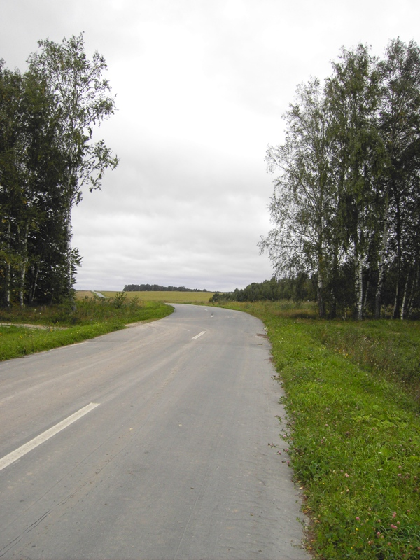 The picture was taken on summer 2006. On the way from neighbour village Ovstug.